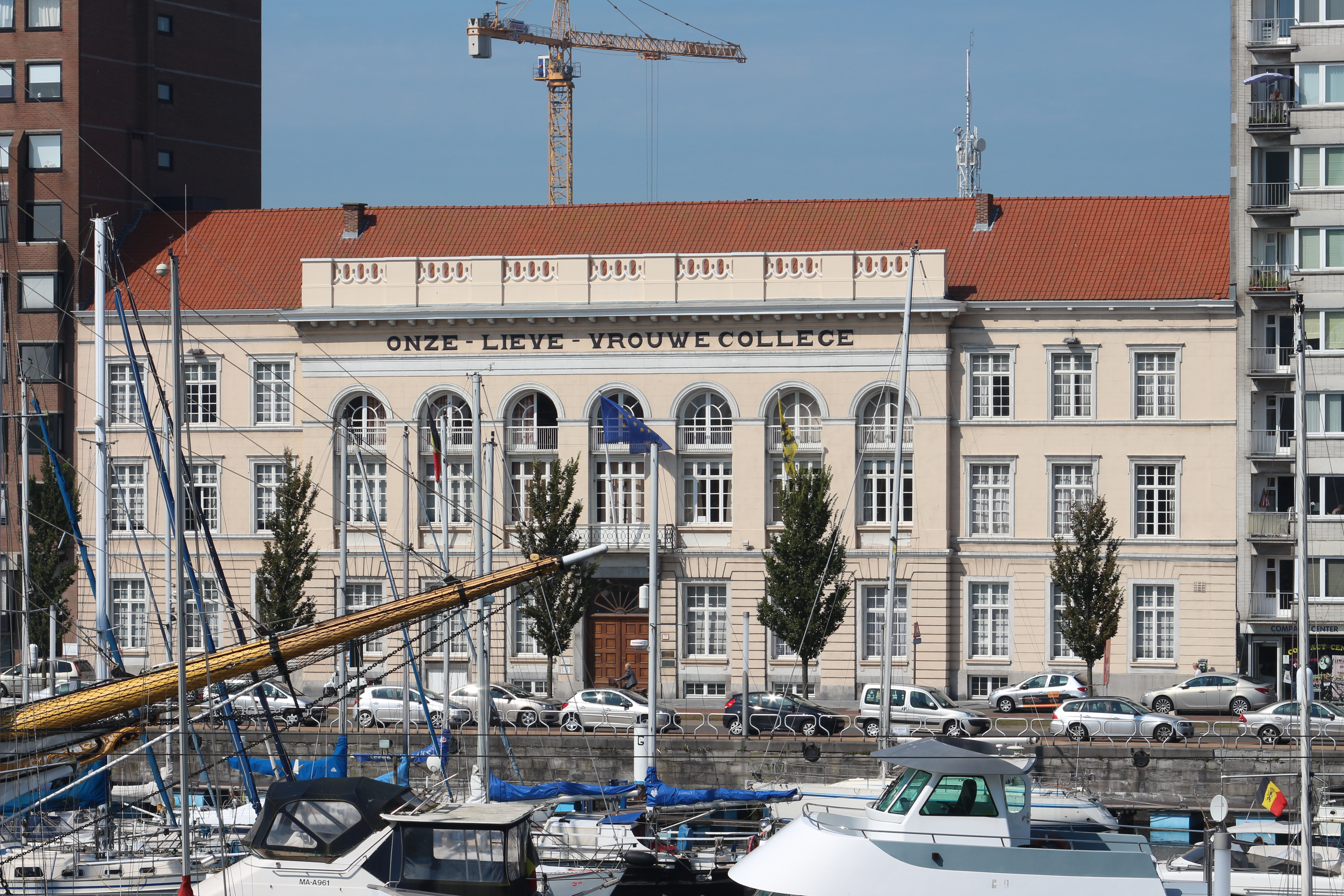 Onze-Lieve-Vrouwecollege, School